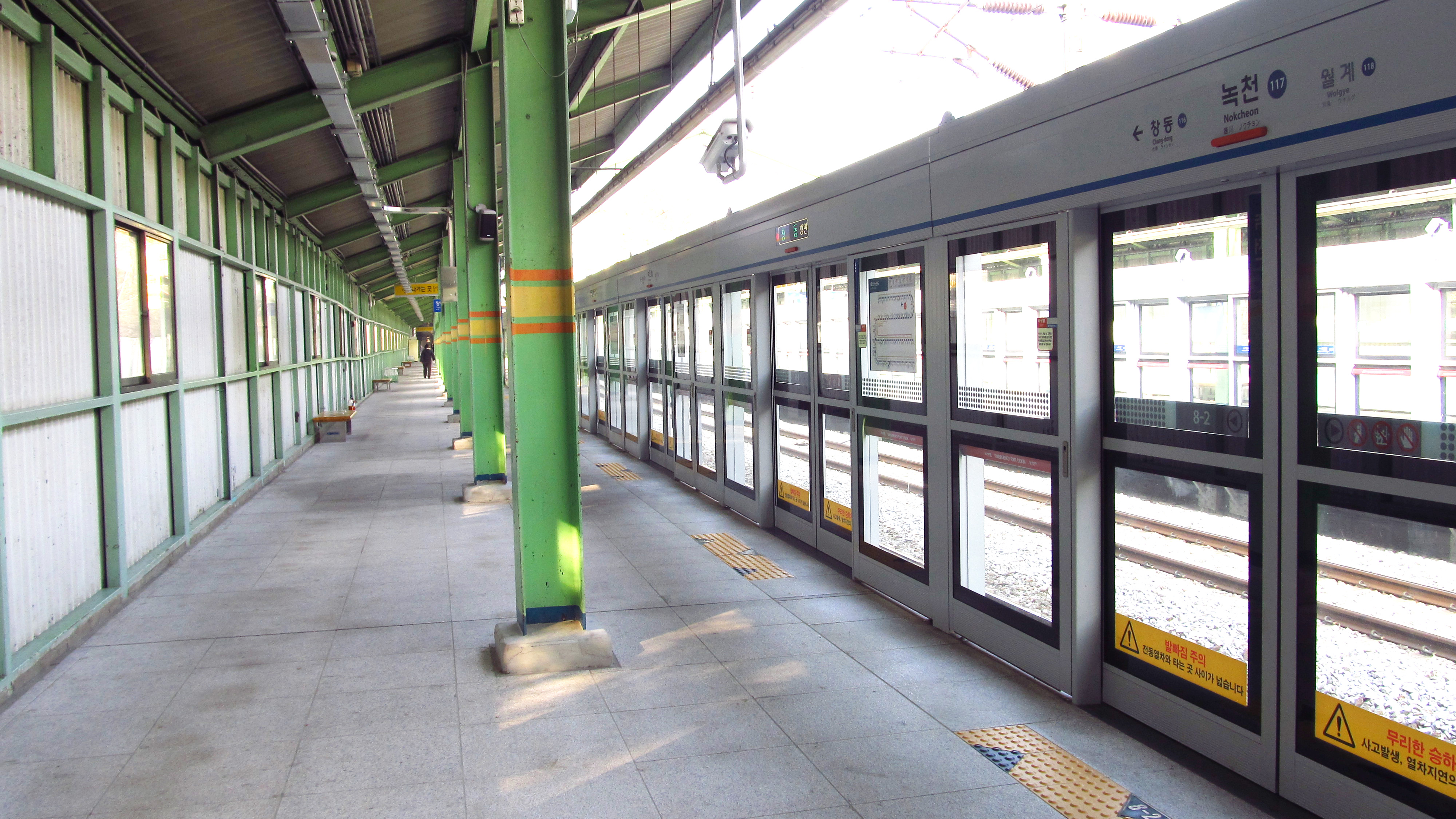 The platform at Nokcheon Station on Seoul Subway Line 1 in Dobong-gu, Seoul, Republic of Korea(South Korea)